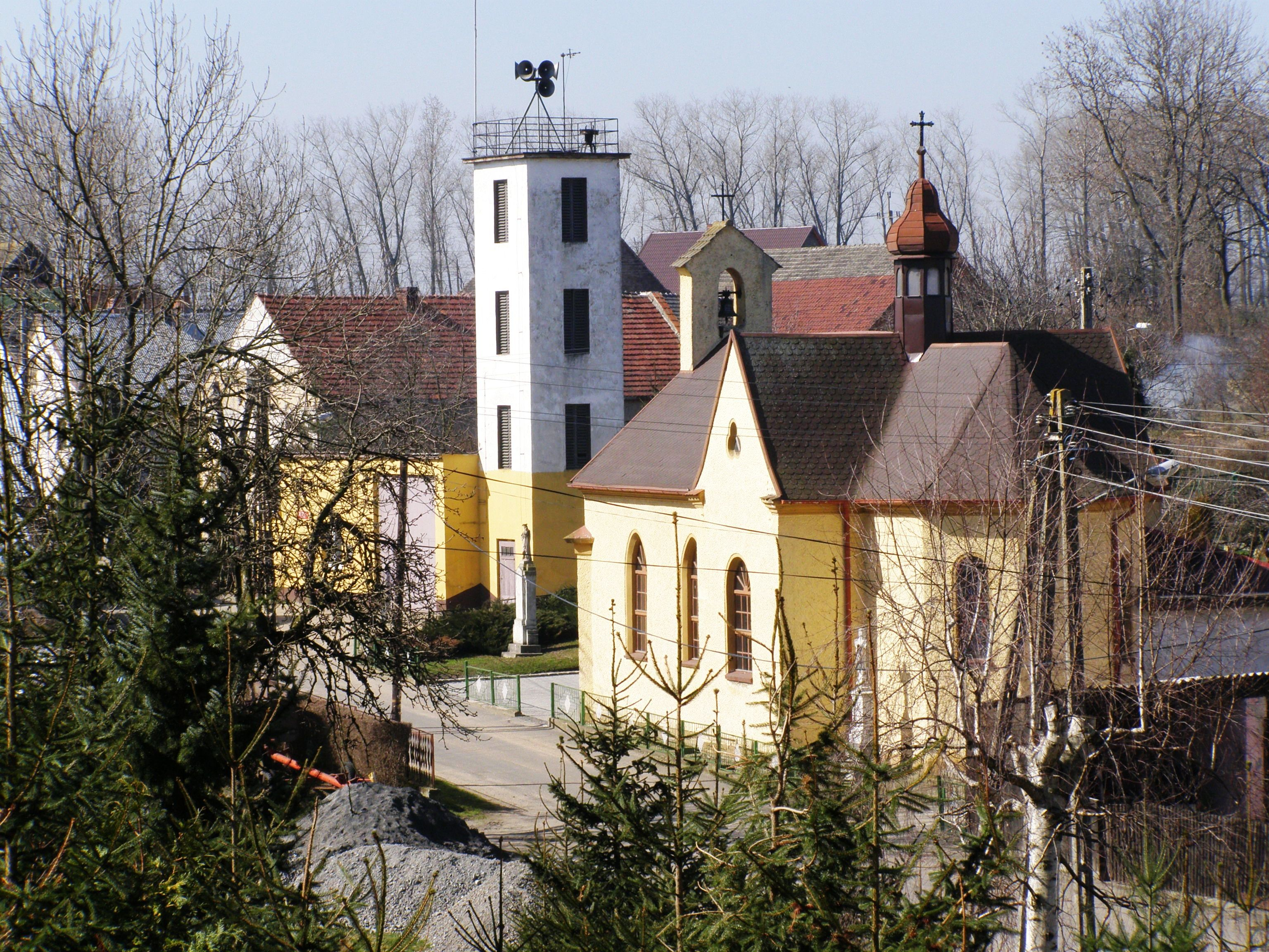 Prężynka - Mary Magdalene chapel and fire station.